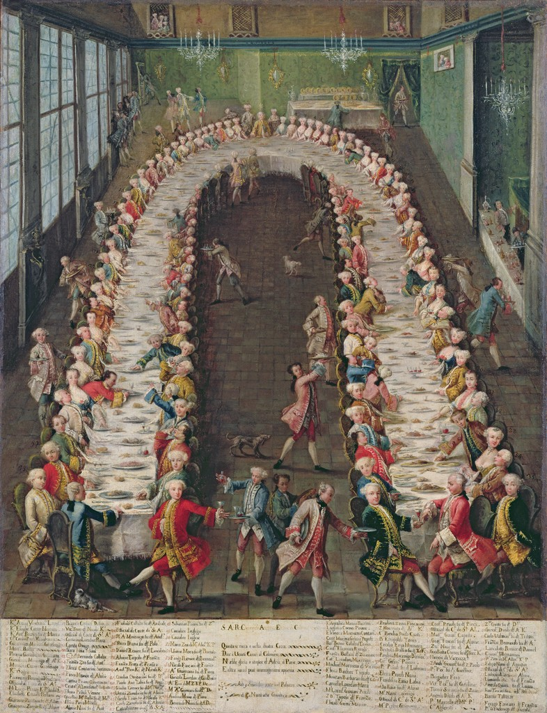 Banquett at the Casa Nani alla Giudecca in Venice in honour of the Elector-Archbisshop of Cologne Clemens-August of Wittelsbach on Septmember 9th. 1755, Ca' Rezzonico, Venice - Italy